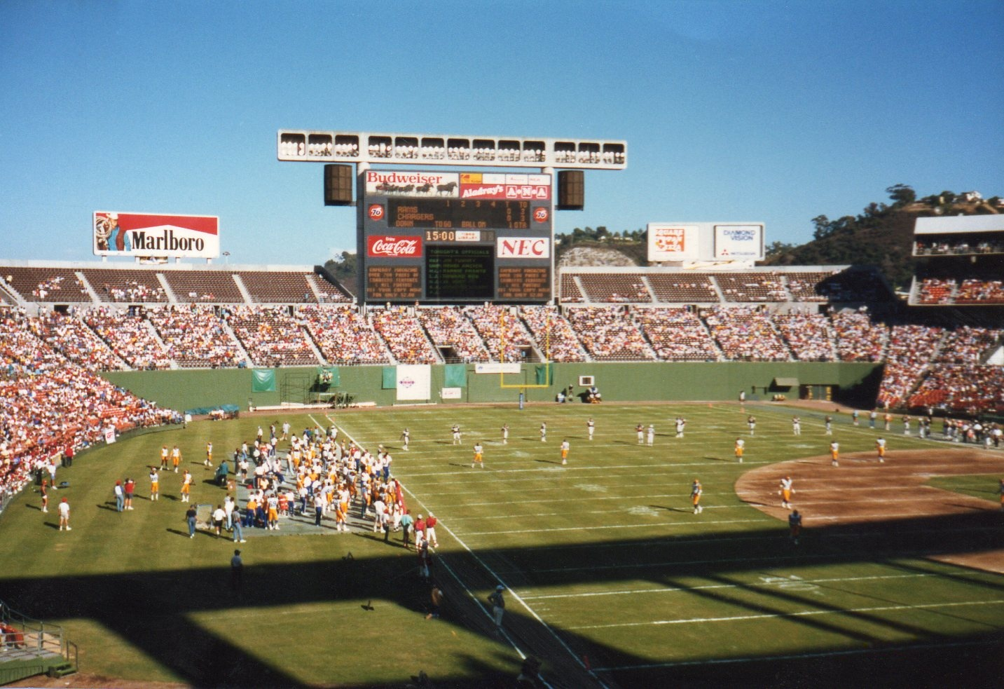 I like this picture I took at a San Diego Chargers preseason game in 1987. It was the first time I ever saw my favorite football team in action.